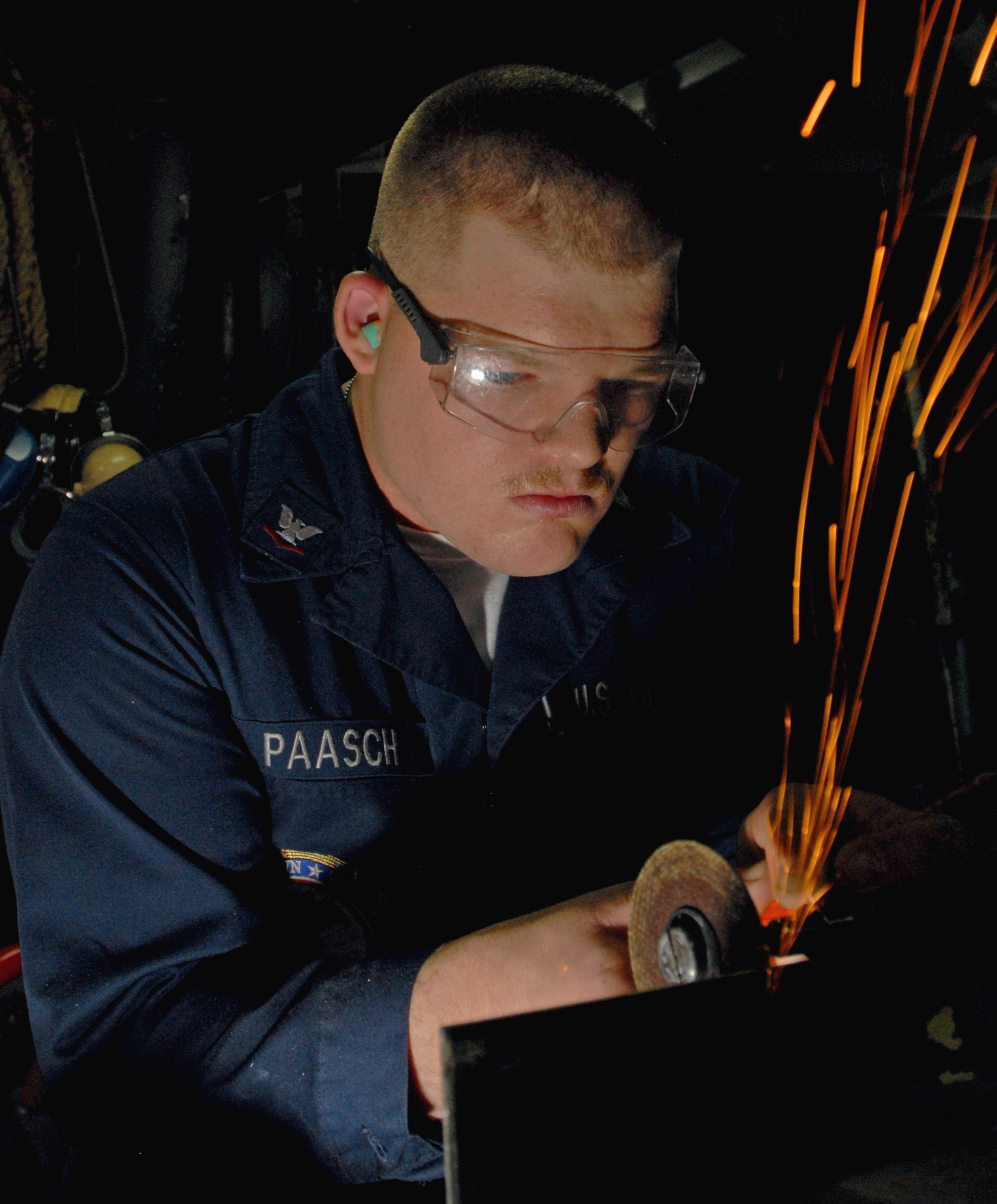 PACIFIC OCEAN (Oct. 8, 2008) Hull Technician 3rd Class Robert Paasch, from Parkdale, Ore., makes a shipboard manhole cover in the engineering department machine shop aboard the Nimitz-class aircraft carrier USS John C. Stennis (CVN 74). Stennis is conducting combat system ships qualification trials off the coast of Southern California. (U.S. Navy photo by Mass Communication Specialist 3rd Class Dmitry Chepusov/Released)